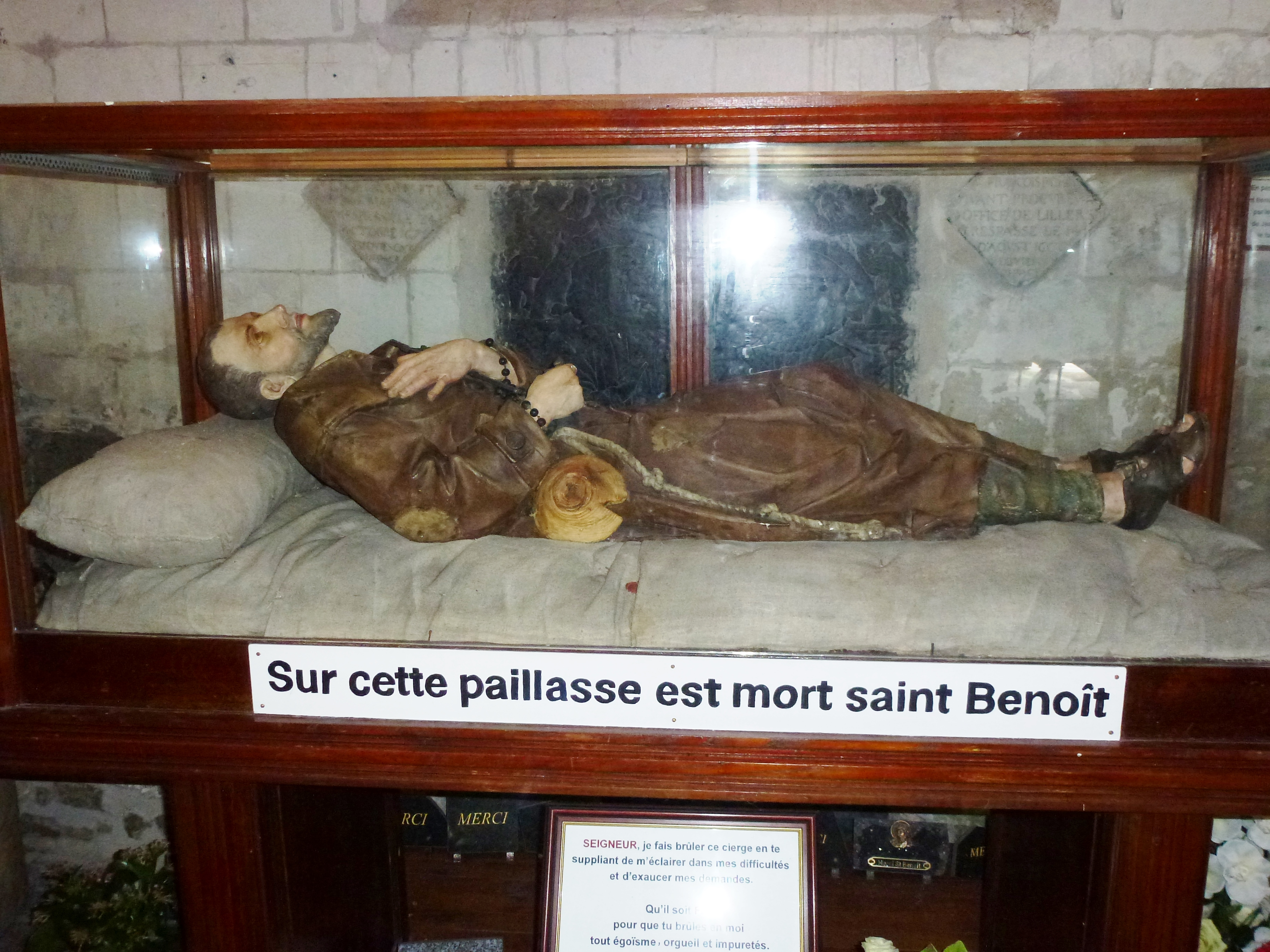 Amettes (Pas-de-Calais, Fr) église Saint-Sulpice, reliquaire lit de mort Saint Benoît